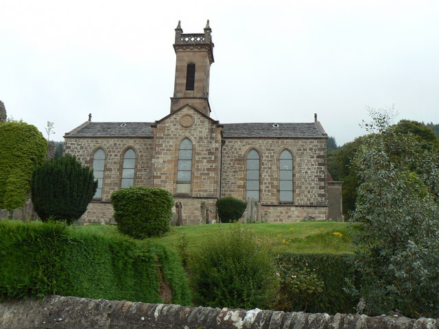 Kilmun Parish Church